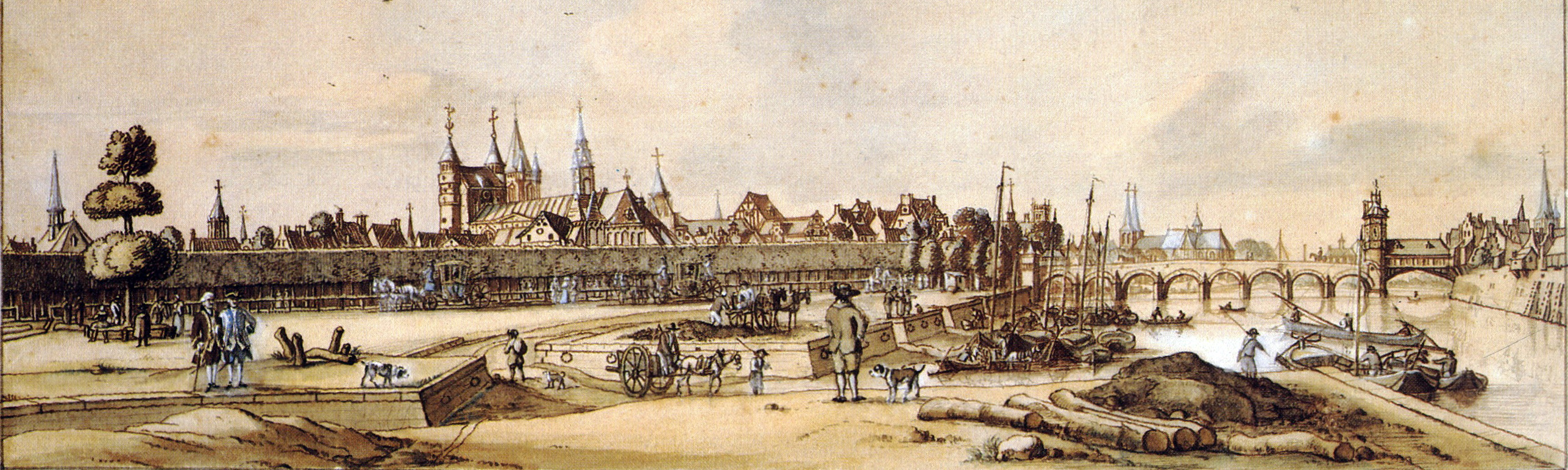 Maastricht, the Netherlands. View of Het Bat and the 13th-century bridge over the river Meuse. Drawing attributed to Jan de Beijer, ca 1740, in the collection of the city of Maastricht.